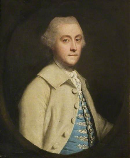 Portrait of William Bagot, 1st Baron Bagot. Courtesy of the collection of Birmingham Museum and Art Galleries.